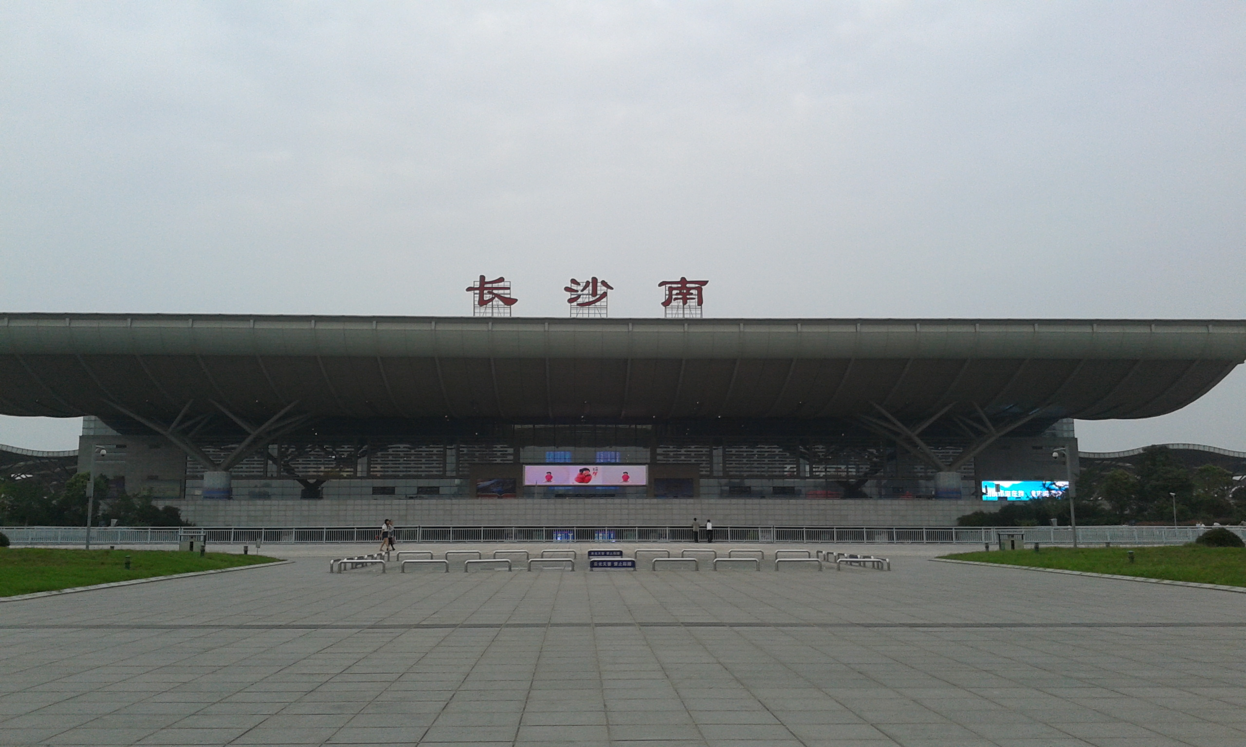 Changsha South Railway Station